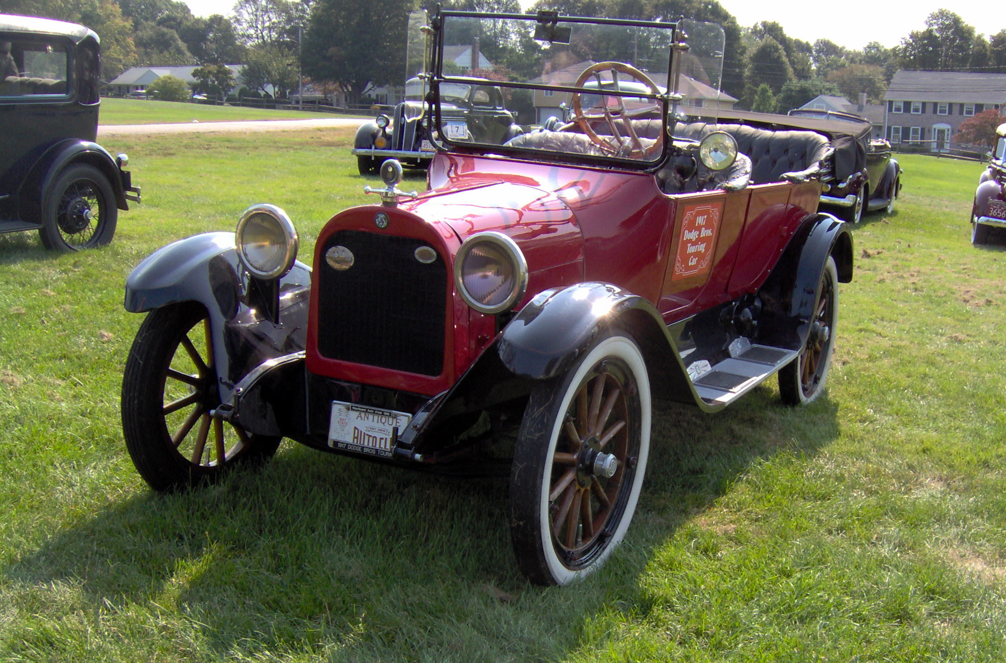 1917 Dodge Brothers touring car